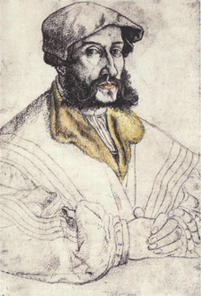 Bernd Krechting, one of the anabaptist leaders of the Münster Rebellion